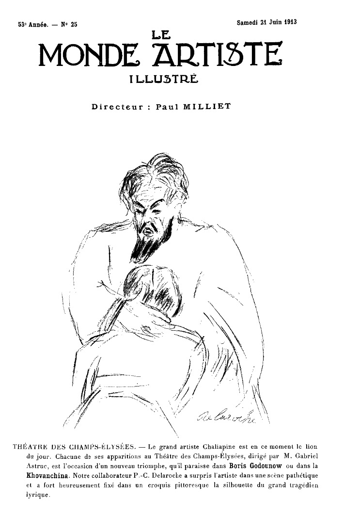 Feodor Ivanovich Chaliapin (1873–1938)